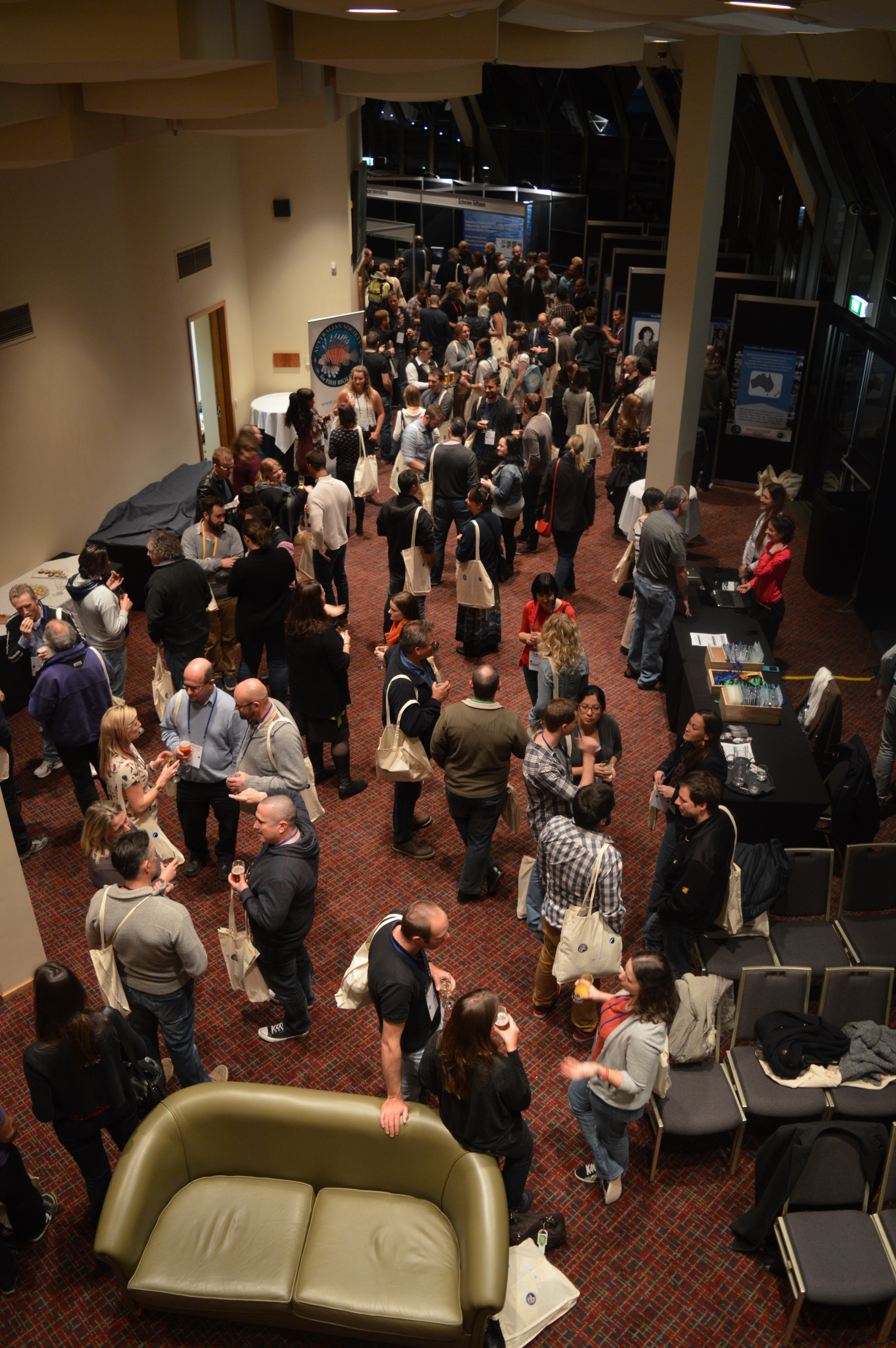 An evening event at Wrest Point Hotel Casino, as part of the 2016 Australian Society for Fish Biology conference in Hobart, Tasmania.